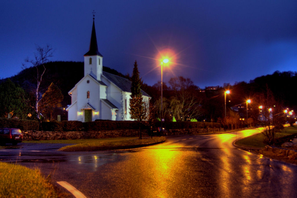 no: Askvoll kyrkje en: Askvoll church Canon D30 HDR Photomatix